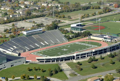 Rynearson Stadium in 2007.